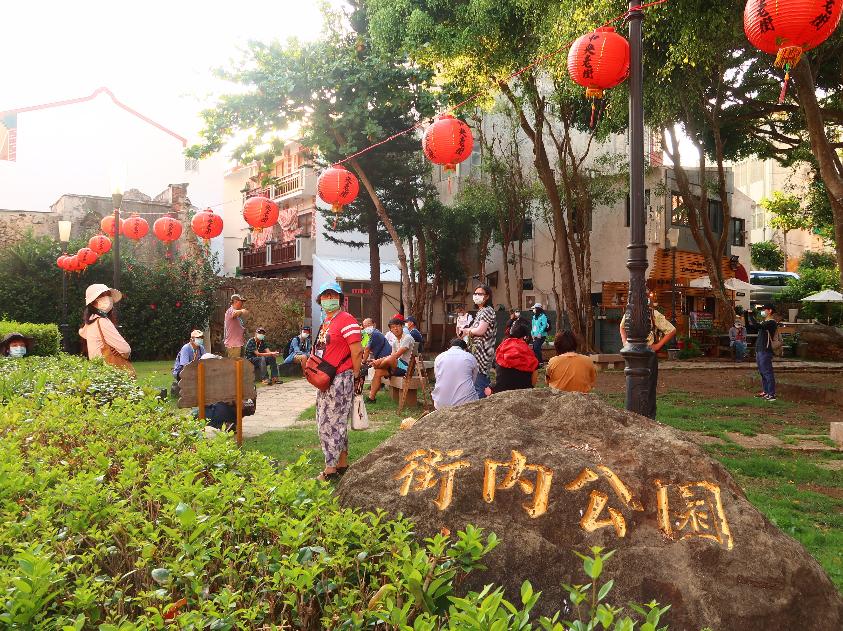 A park inside of Magong central street. There was also an almshouse during Qing Dynasty